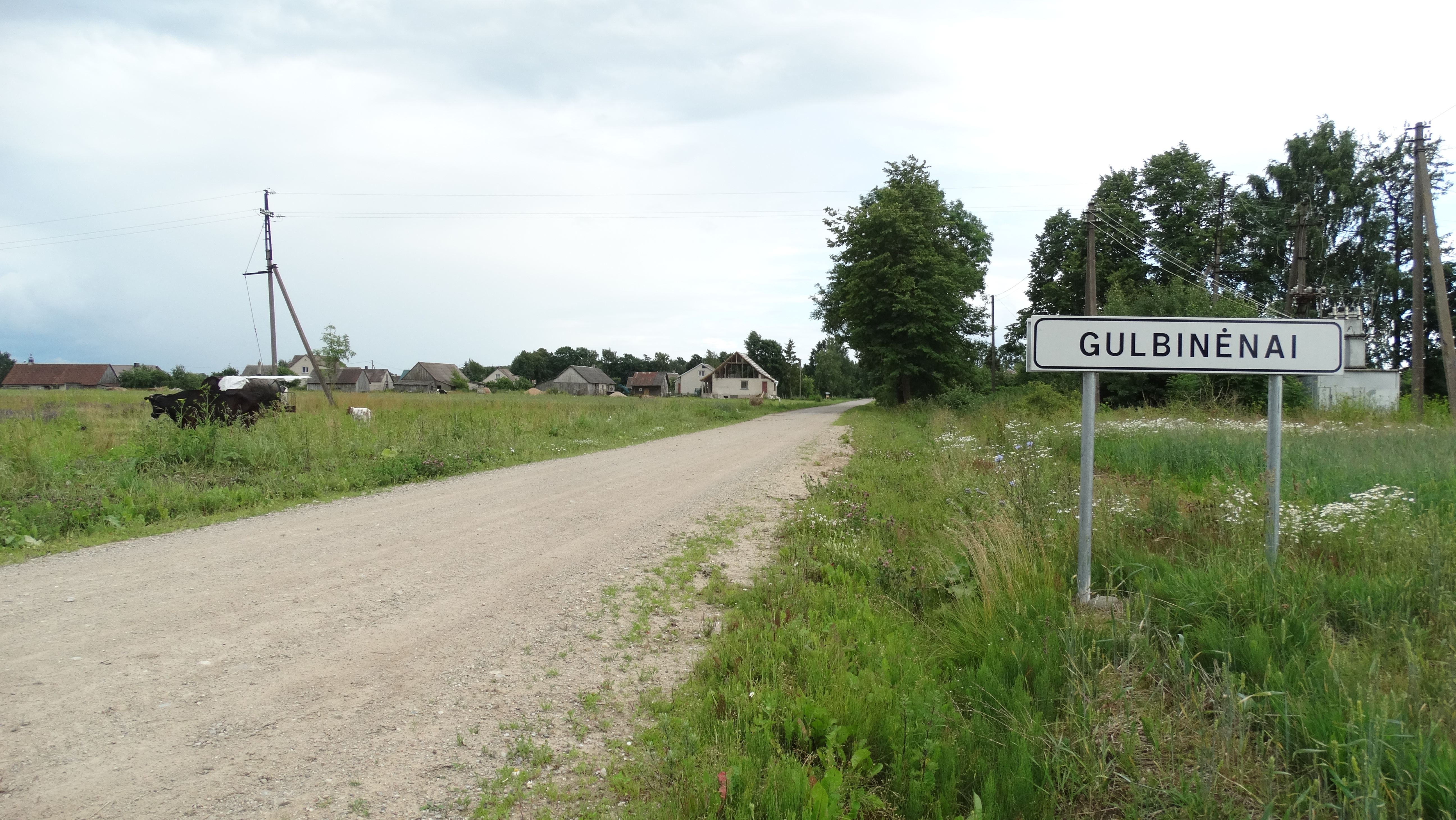 Gulbinėnai, Pasvalys district, Lithuania